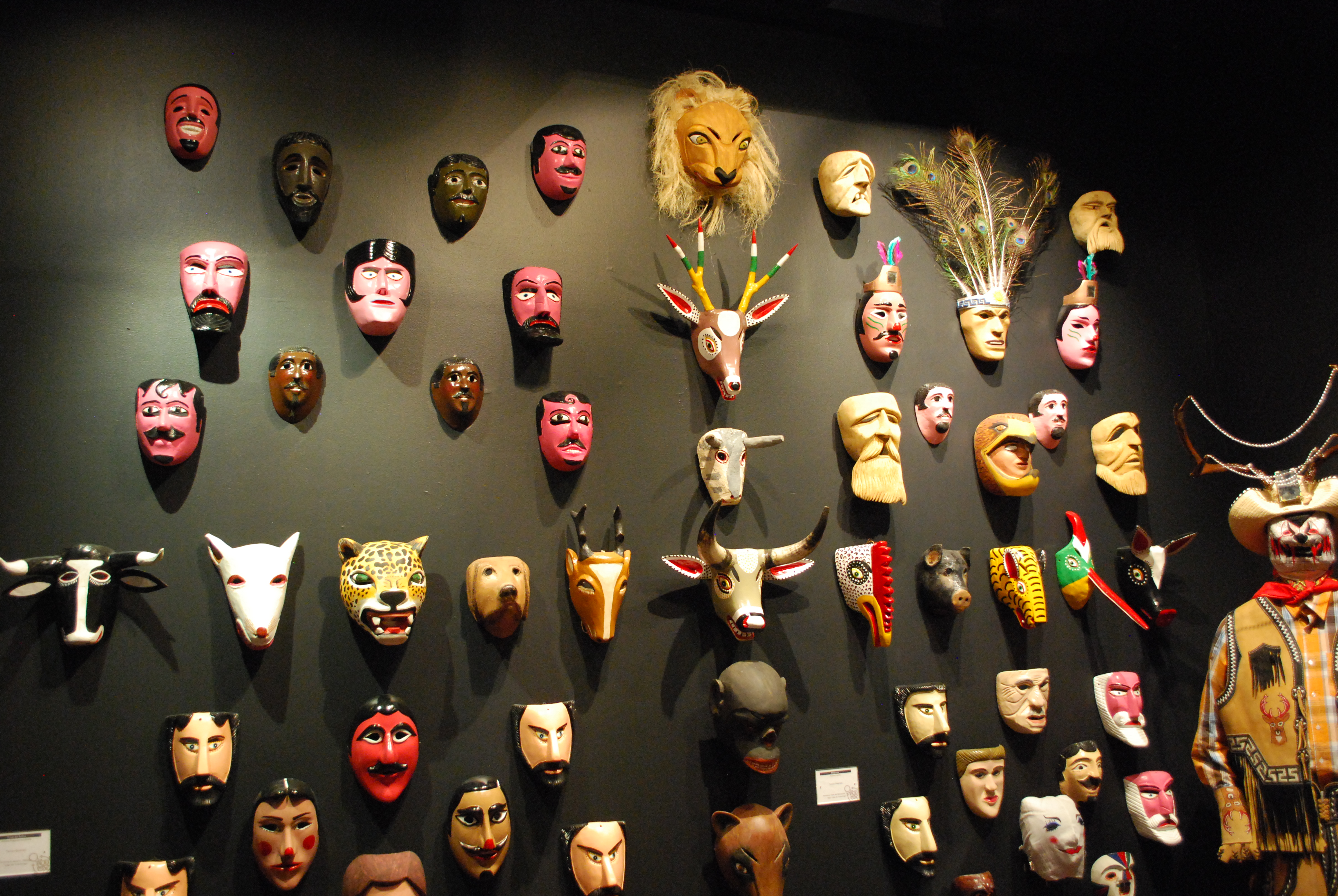 Display of masks used for traditional dances at a temporary exhibition dedicated to the state of Hidalgo at the Museo de Arte Popular, Mexico City